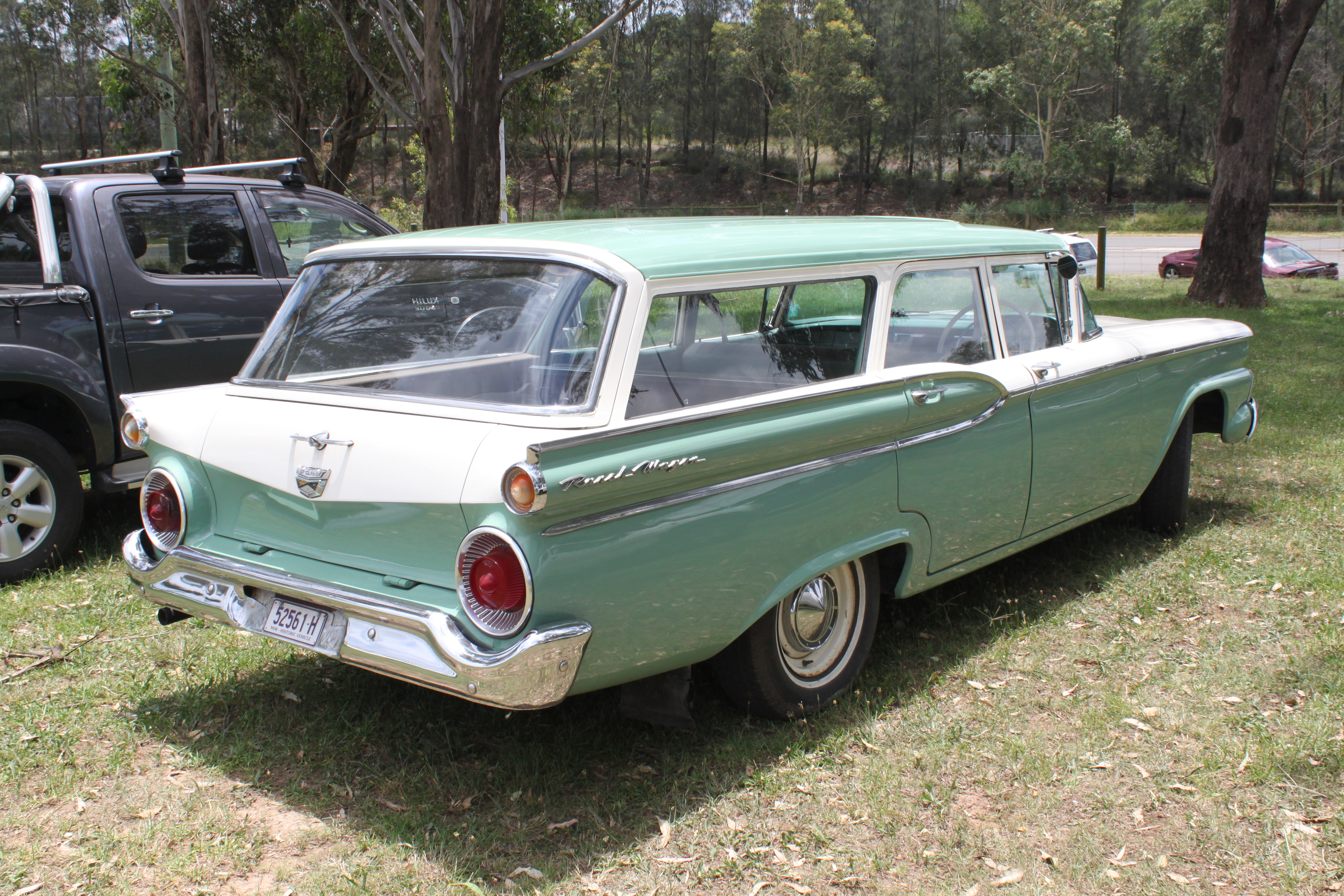 1960 Ford Fairlane Ranch Wagon